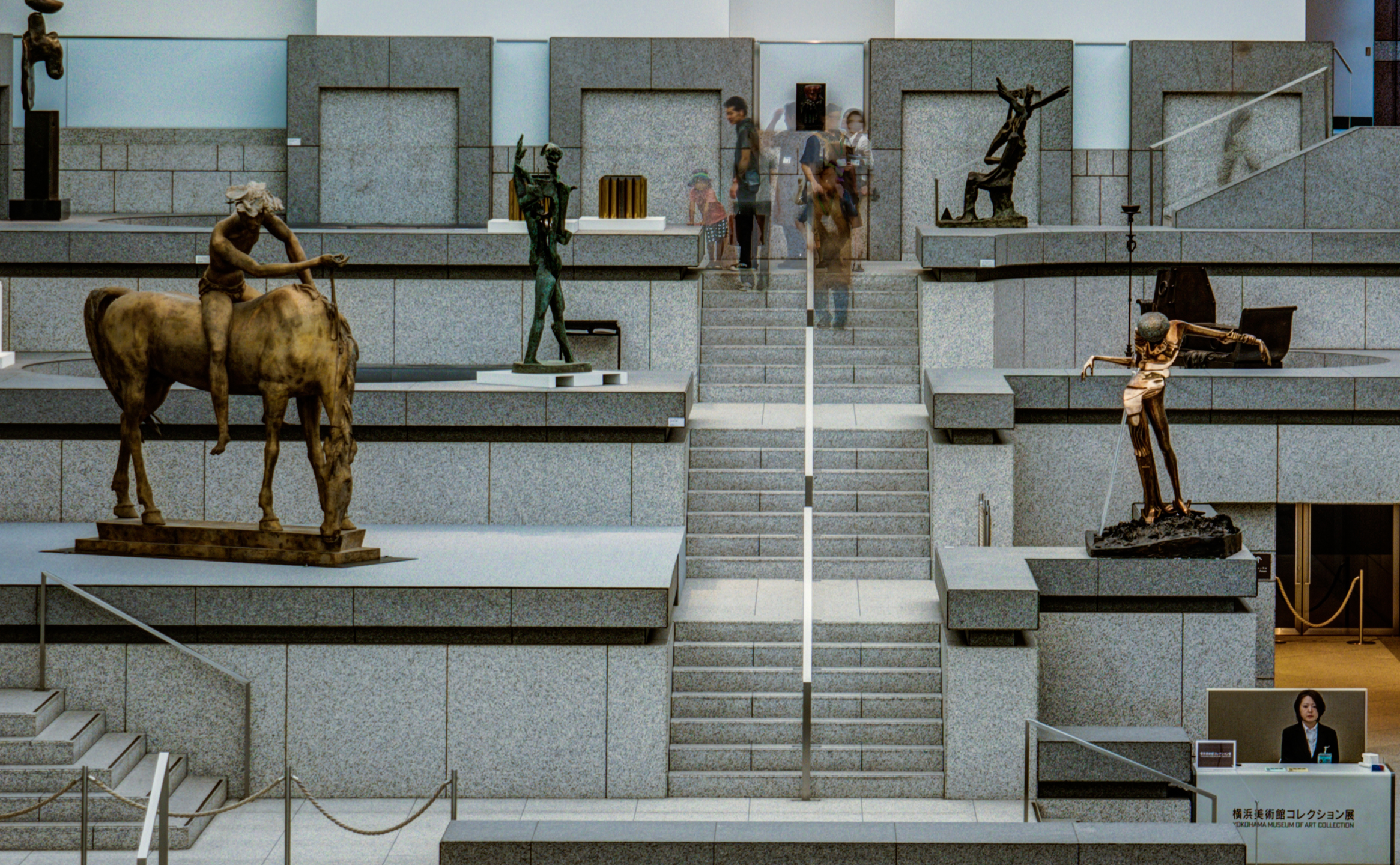 Grand gallery of Yokohama museum, Japan